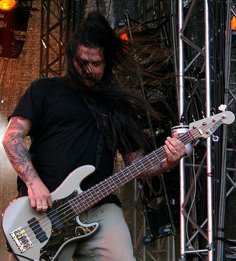 Bassist Chi Cheng of Deftones performing at the Hultsfred Festival in Sweden.